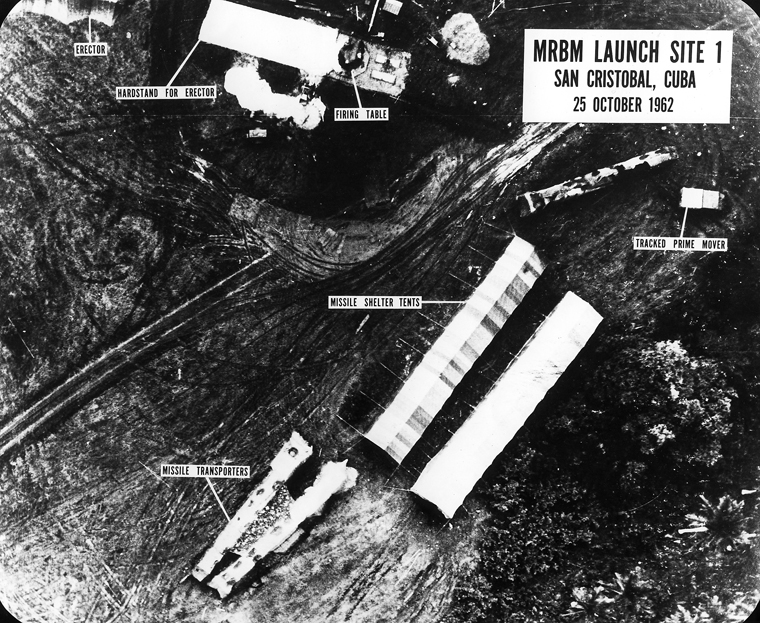 Medium Range Ballistic Missile Launch Site 1, San Cristobal, Cuba 25 October 1962 (MRBM Launch Site 1) - Cuban missile crisis